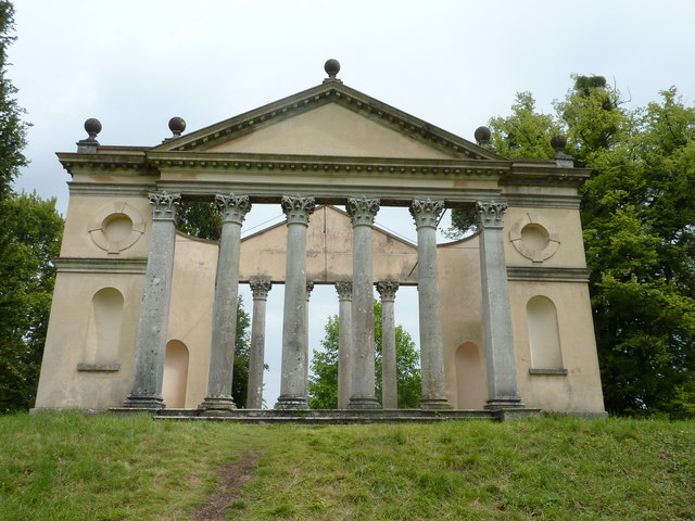 "Jackdaw's Castle", Highclere Castle, Highclere